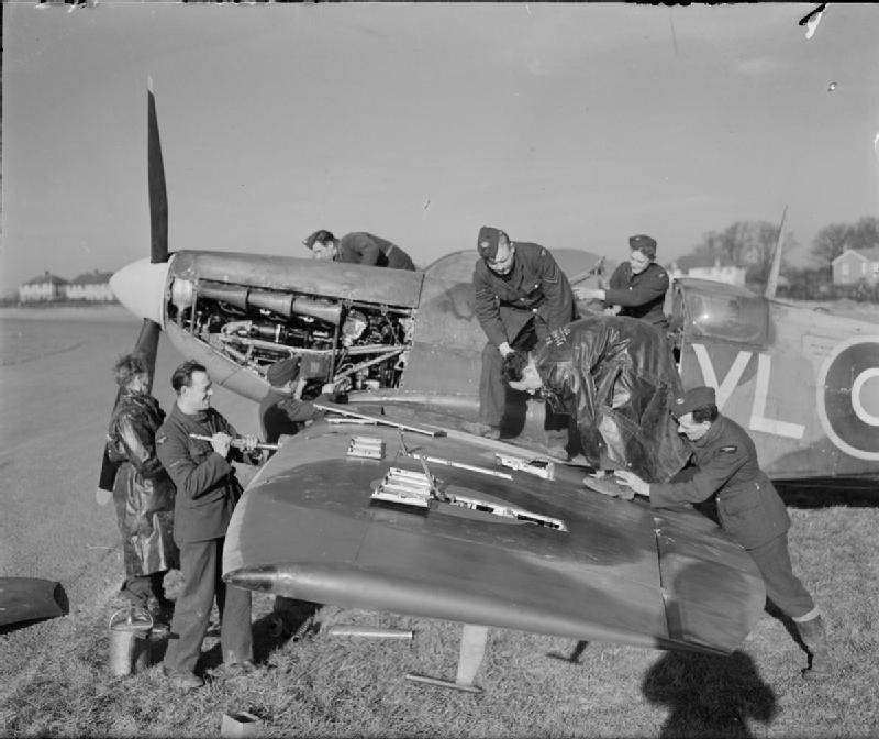 Royal Air Force 1939-1945- Fighter Command Ground crew service a Spitfire LF Mark VB of No. 322 (Dutch) Squadron RAF at Hawkinge, 1 February 1944.